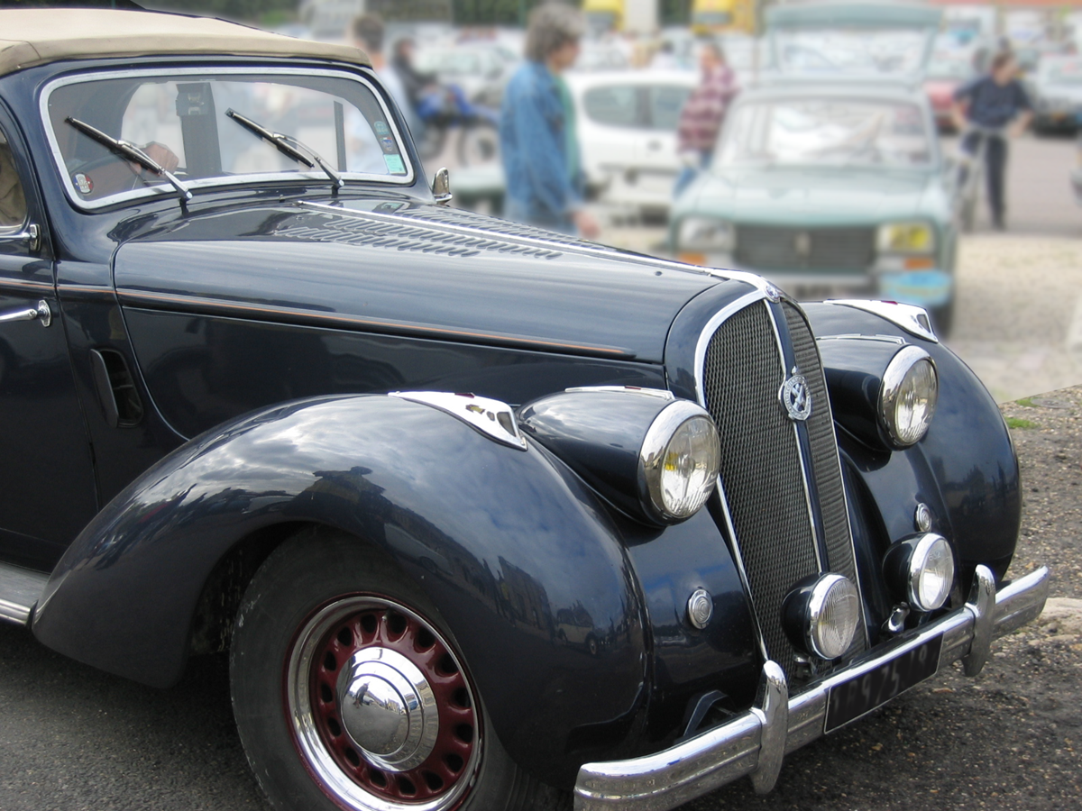 1948 Hotchkiss 686 S.49 Provence decouvrable - this unique car is a pre-series unit, a two-door cabrio-coach which was quickly replaced by the full-convertible Languedoc. Personal picture